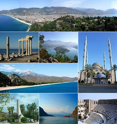 Collage of Antalya province